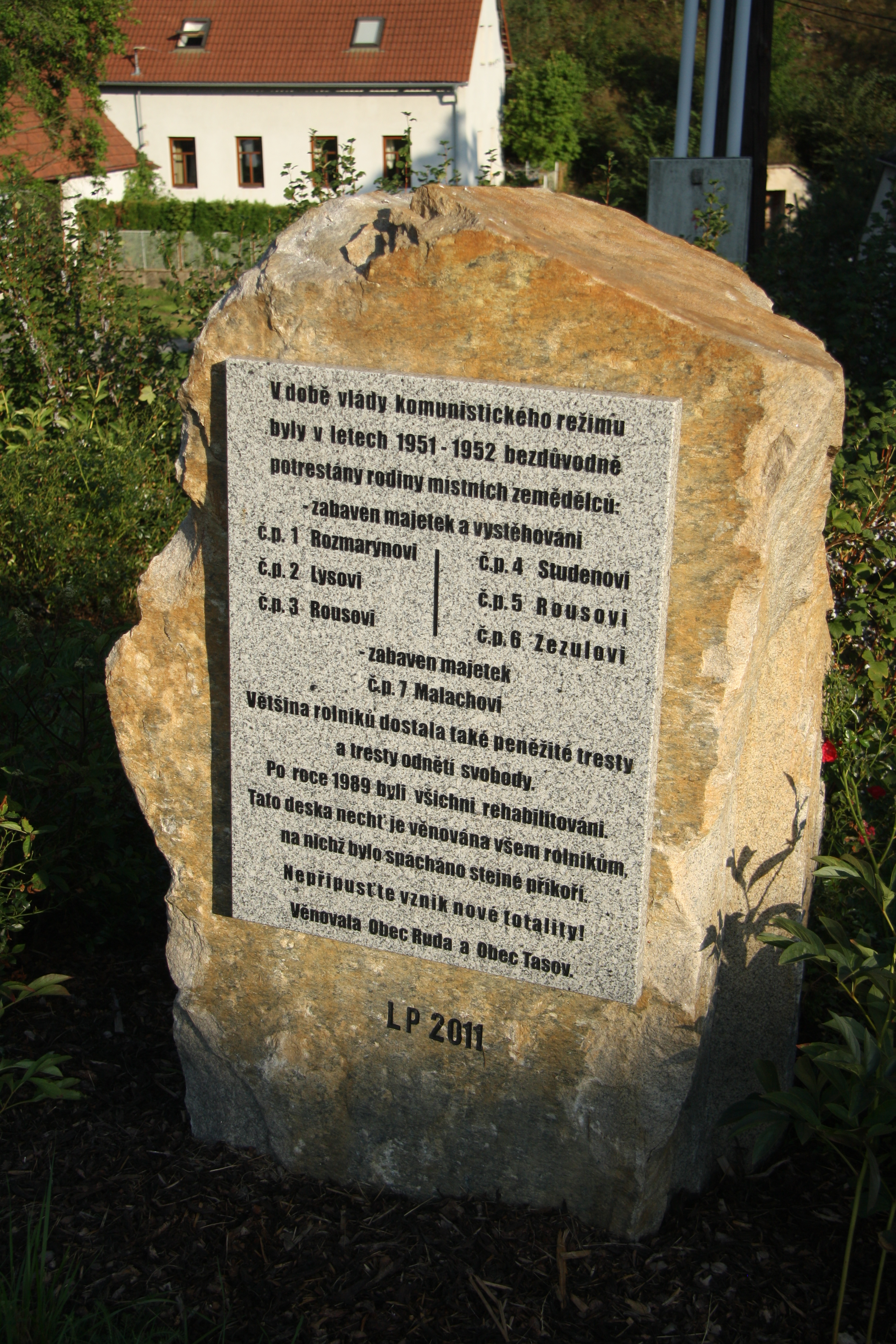 Memorial of kulaks moving from Lhotka in Lhotka, Ruda, Žďár nad Sázavou District.